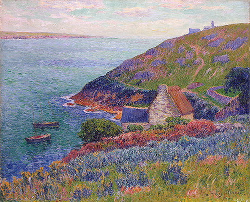 Port Manech, painting by the French Impessionist Henry Moret, 1896, now in the Hermitage Museum. Oil on canvas. 60.5 x 73.5 cm.